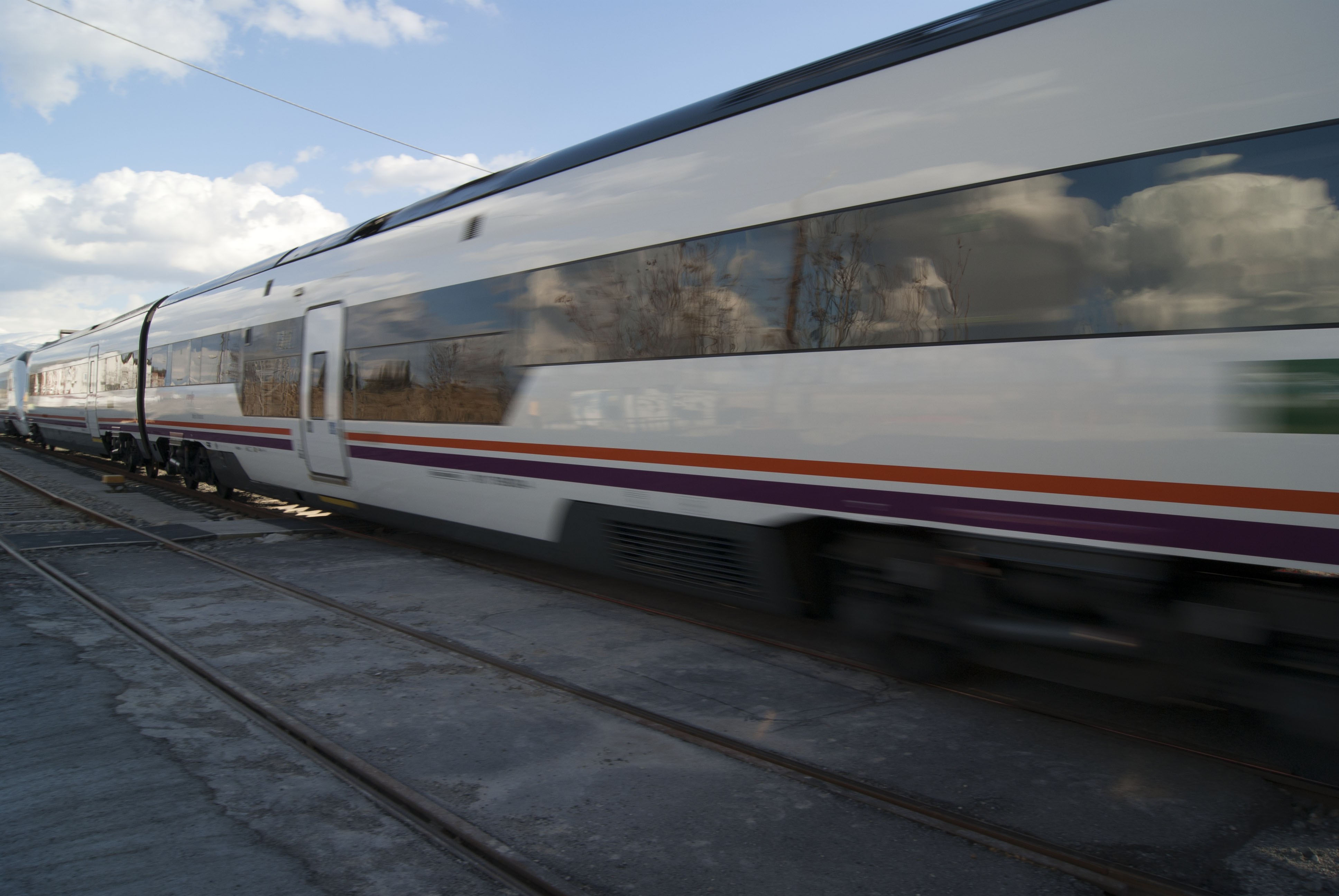 Two Renfe S599 trains coupled in a Media Distancia service between Almería and Sevilla-Santa Justa, just after departing Grenade, passing whithout stop trought Atarfe-Santa Fe station at about 150 km/h.